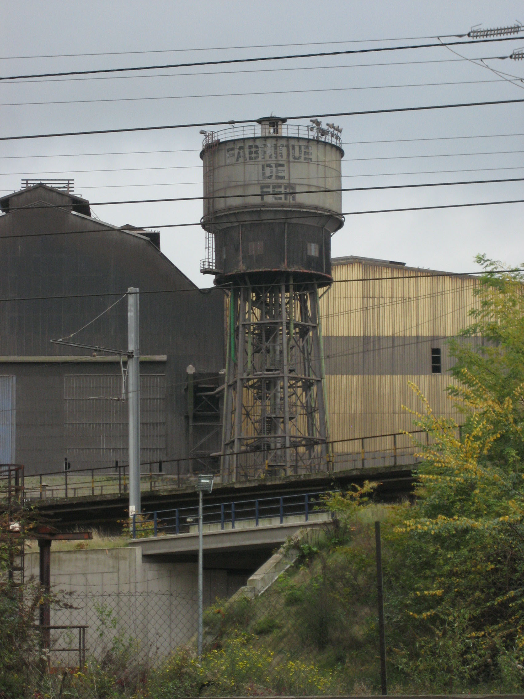 Line 260 Xing Route de Mons